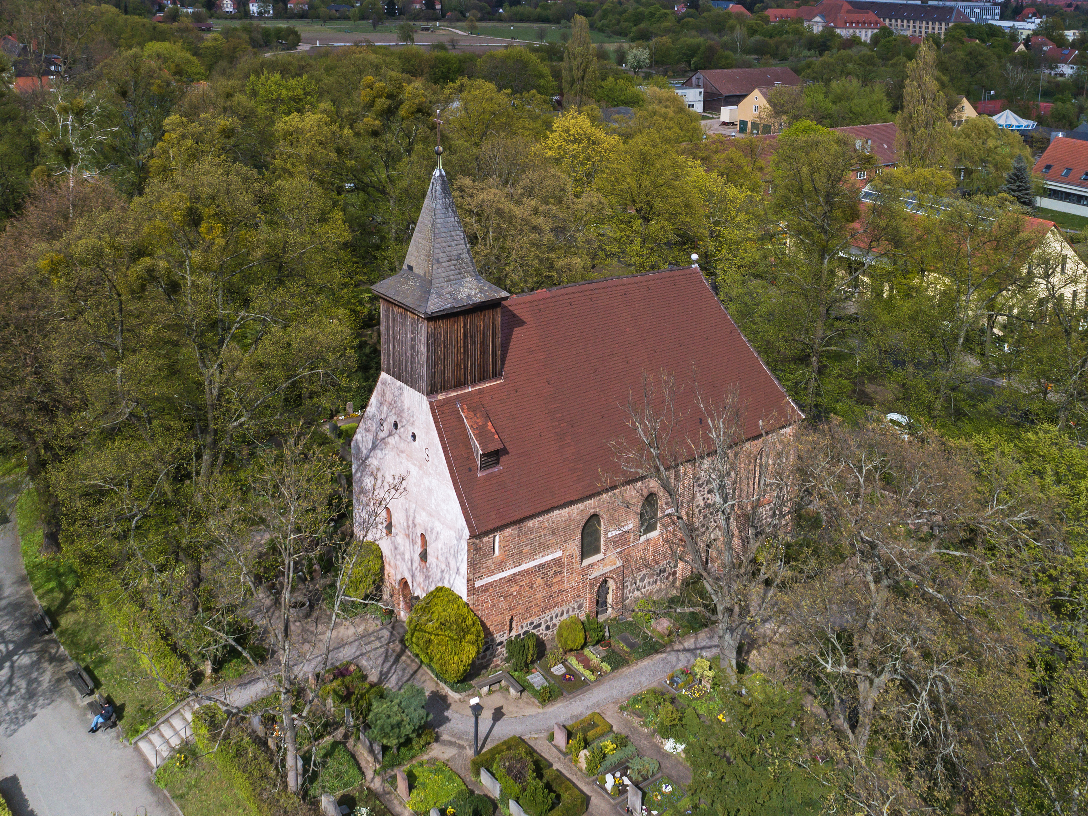 Village church of Dahlem in Berlin (Germany)